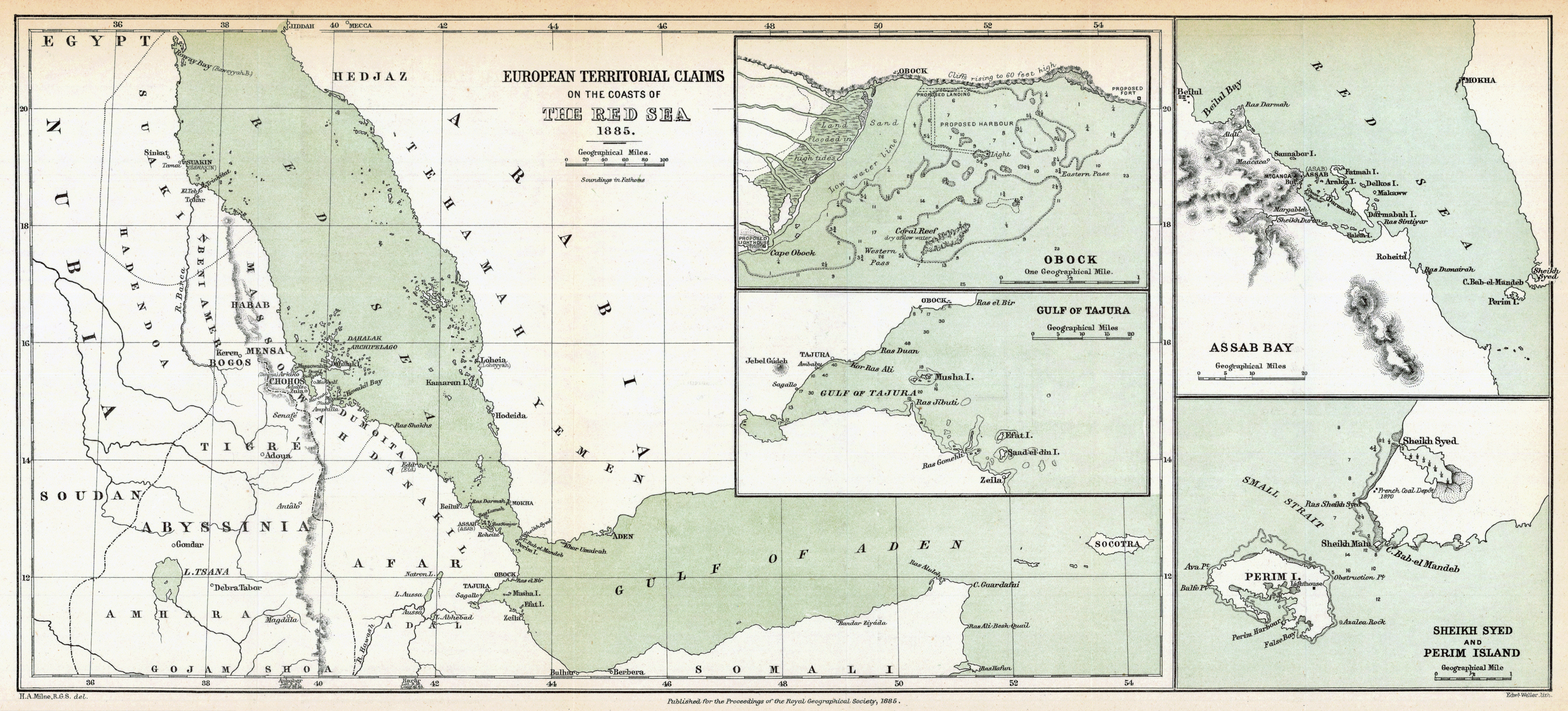 European territorial claims on the coasts of the Red Sea, 1885 Author: Sir William Rawson (1812-1899) Lithographer: Edward Weller (d. 1884) Publisher: Edward Stanford Ltd. Includes inset maps Gulf of Tajura [scale ca. 1:1,169,000] Obock [scale ca. 1:41,740] Also includes ancillary maps Assab Bay [scale ca. 1:1,087,000] Sheikh Syed and Perim Island [scale ca. 1:73,040]. Depth shown by soundings. Sand bars, intertidal zones, and actual and proposed land and marine structures are shown.